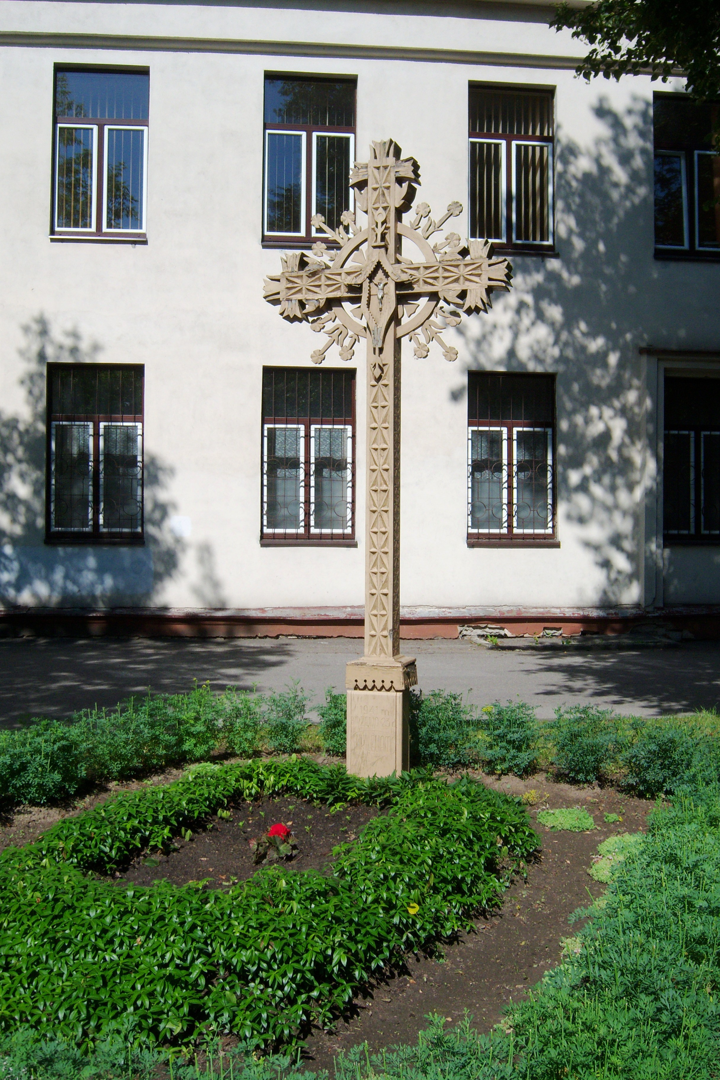 A wooden cross by Academy of Music in Aleksotas, Kaunas, Lithuania, Lithuania